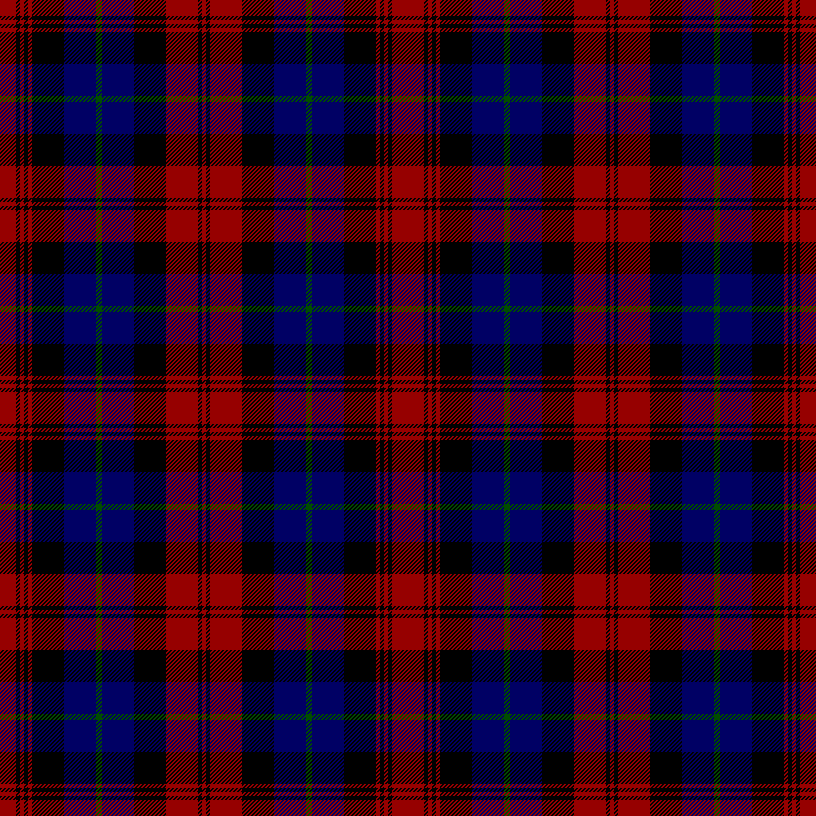 A representation of the Maclachlan tartan. This is most popular Maclachlan tartan today. This tartan appears in the T. Smibert's The Clans of the Highlands of Scotland published in 1850. [1] Thread count used: R32, K4, R4, K4, R4, K32, B32, G6, B32, K32, R32, K4, R4.